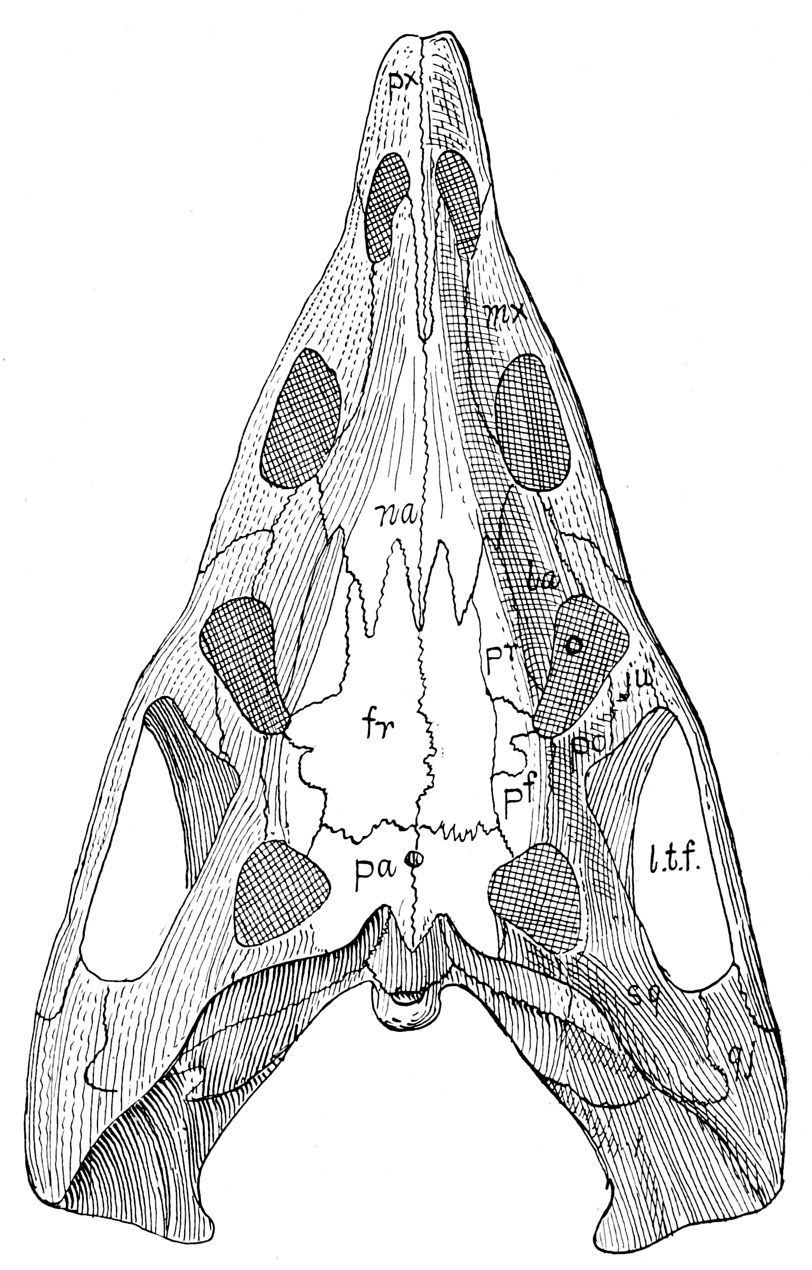 Illustration of Erythrosuchus skull (from above) from The Osteology of the Reptiles (1925)